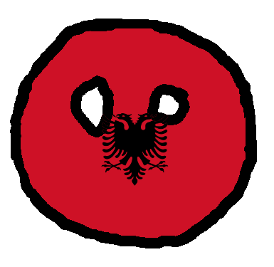 Albaniaball